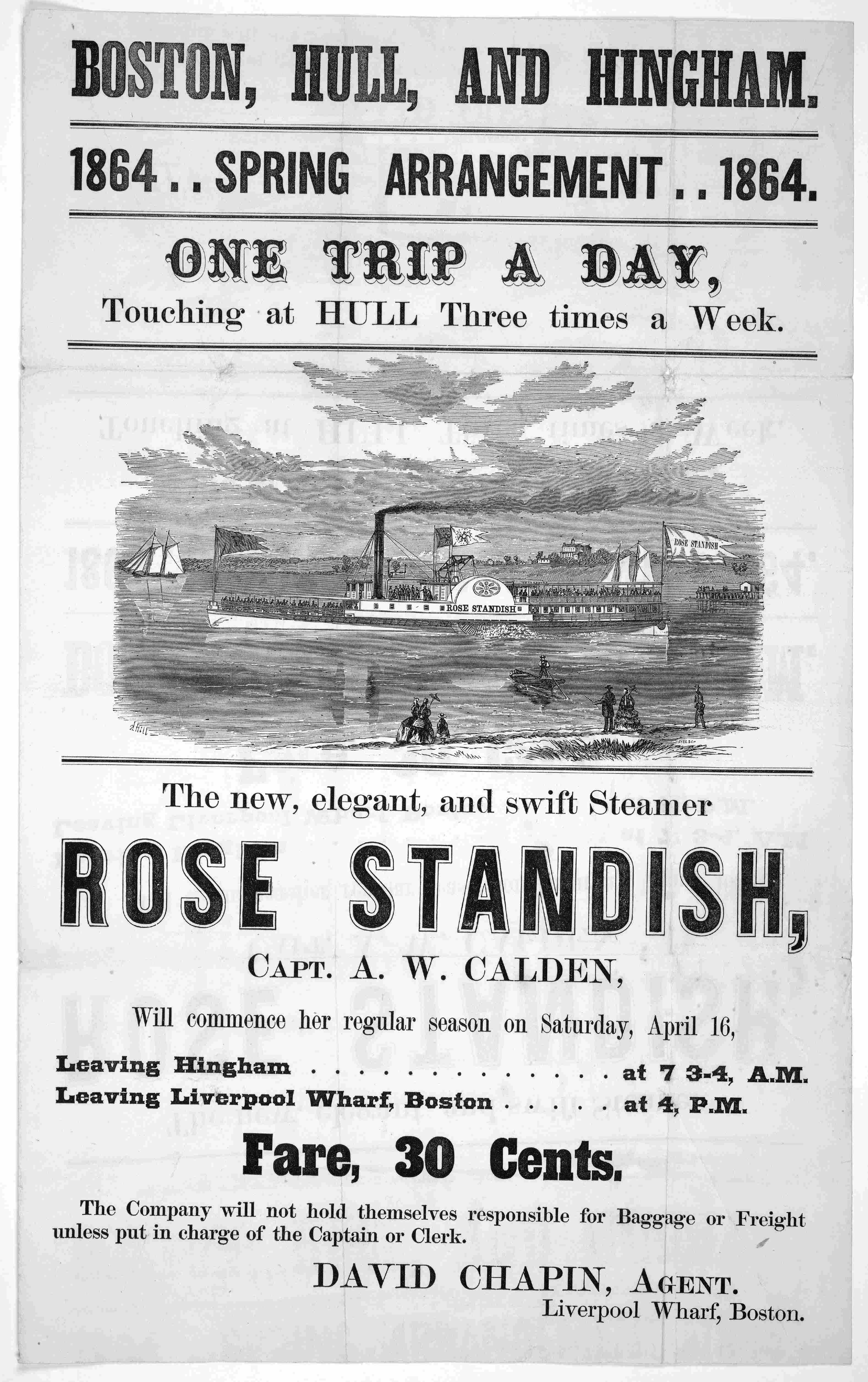 Photograph of printed broadside of the steamer Rose Standish, making trips between Boston, Hull and Hingham, Massachusetts. The Library of Congress, Washington, D.C.